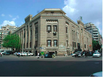 Ministry of Endowments in Cairo, Egypt on Sherif Pasha St.